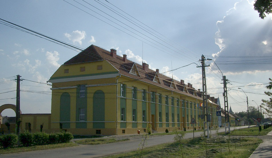 Comloșu Mare School